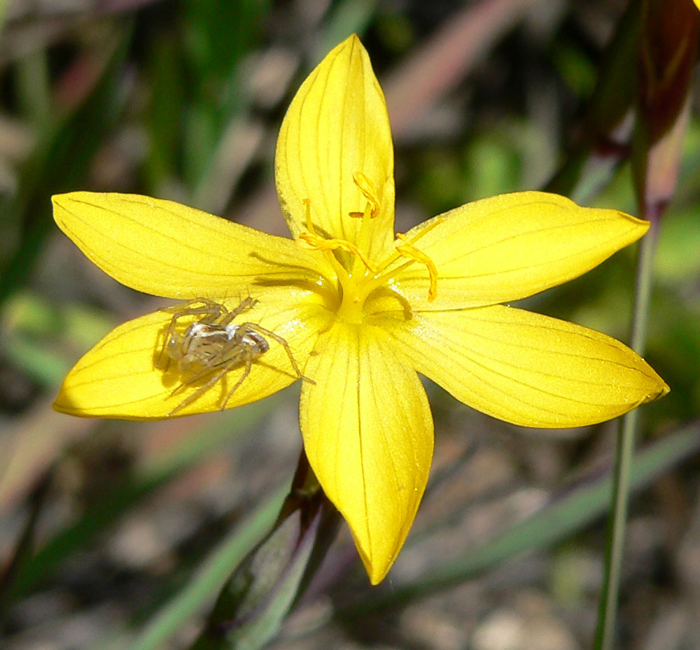 Sisyrinchium californicum at the University of California Botanical Garden, Berkeley, California